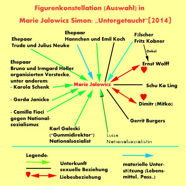 Graphic showing the relationship of the protagonists in the book “Untergetaucht. Eine junge Frau überlebt in Berlin 1940-1945“(S. Fischer Verlag, Frankfurt am Main 2014) by Marie Jalowicz Simon.